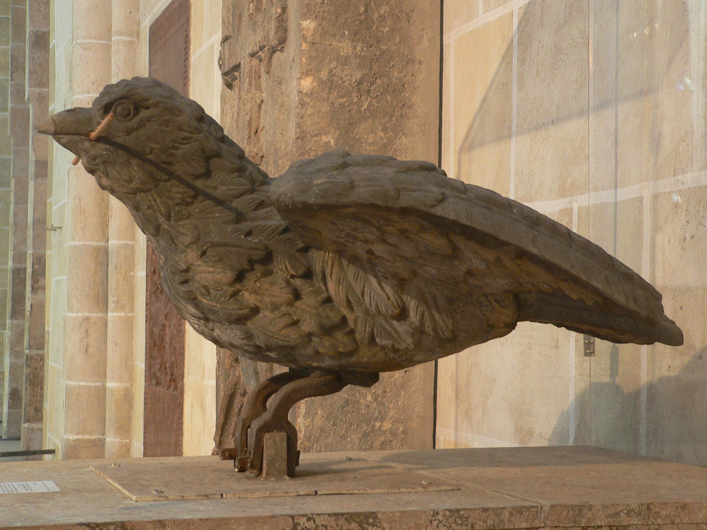 Sparrow of Ulm called „Ulmer Spatz“, original in the Ulmer Münster, Ulm/Germany, formerly on the roof of Ulm Minster